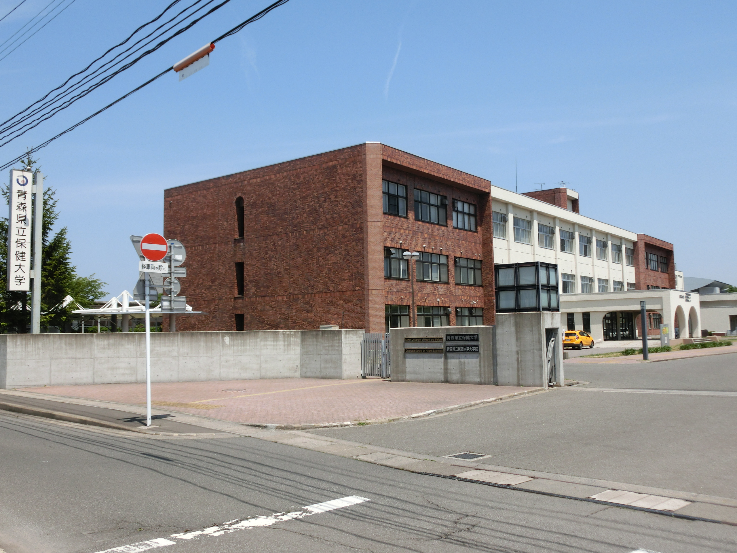 Aomori University of Health and Welfare